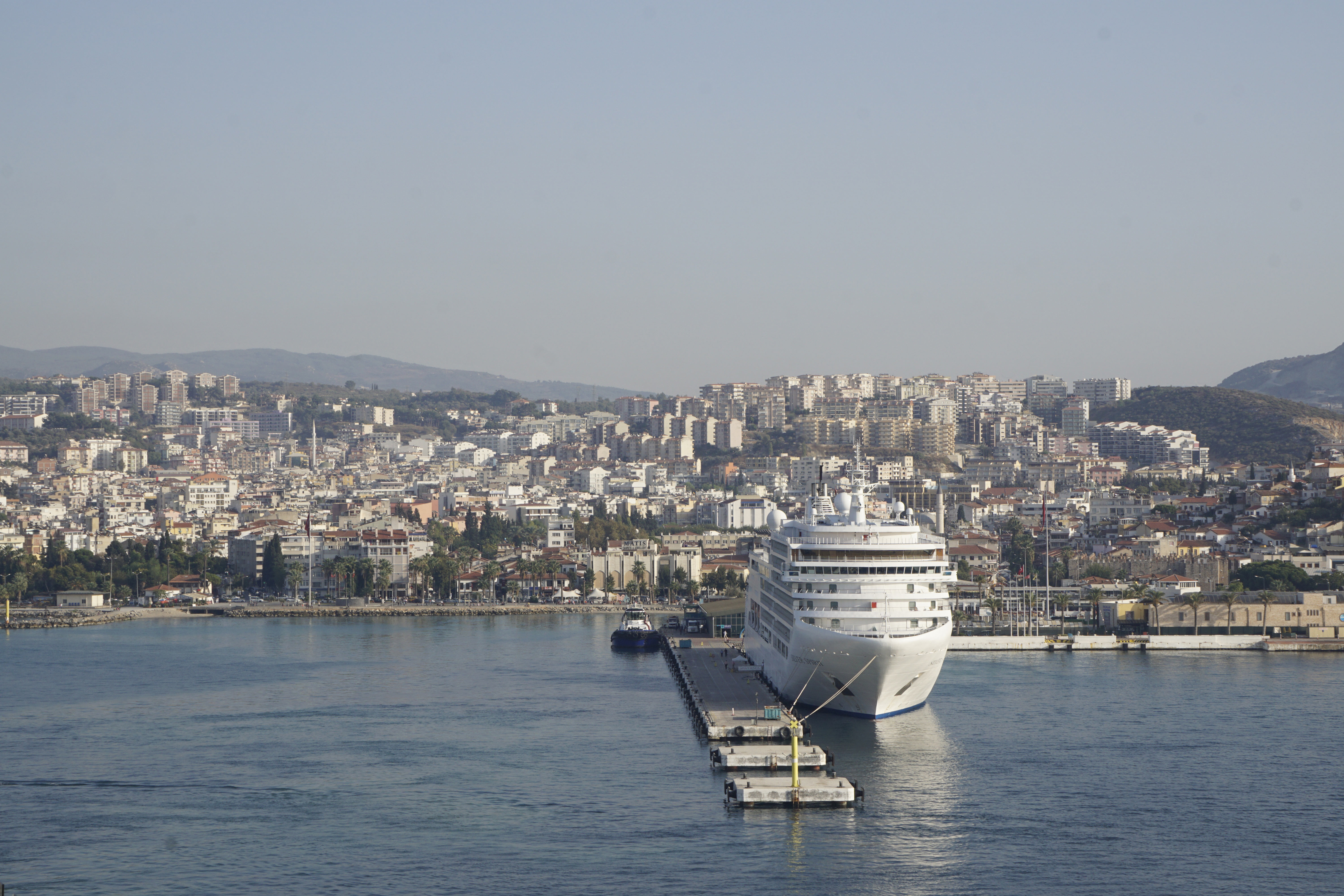 Port of Kuşadası